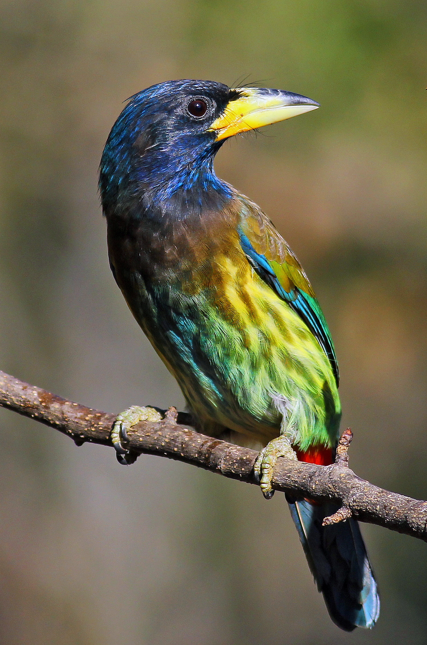 This bird is just like a rainbow.